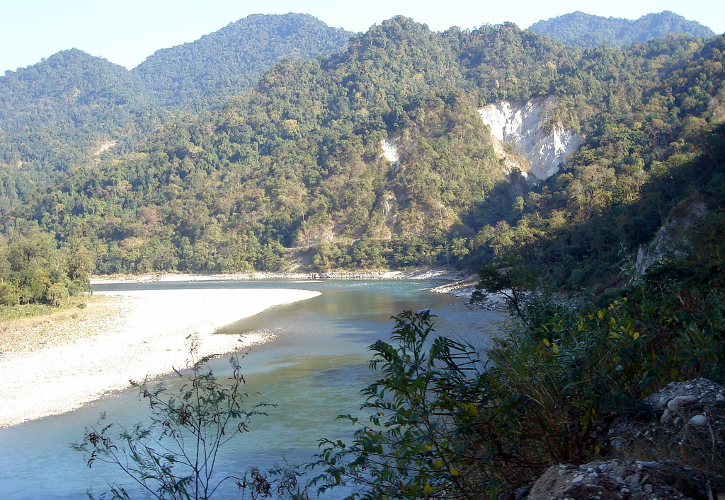 On a four wheeler by the edge